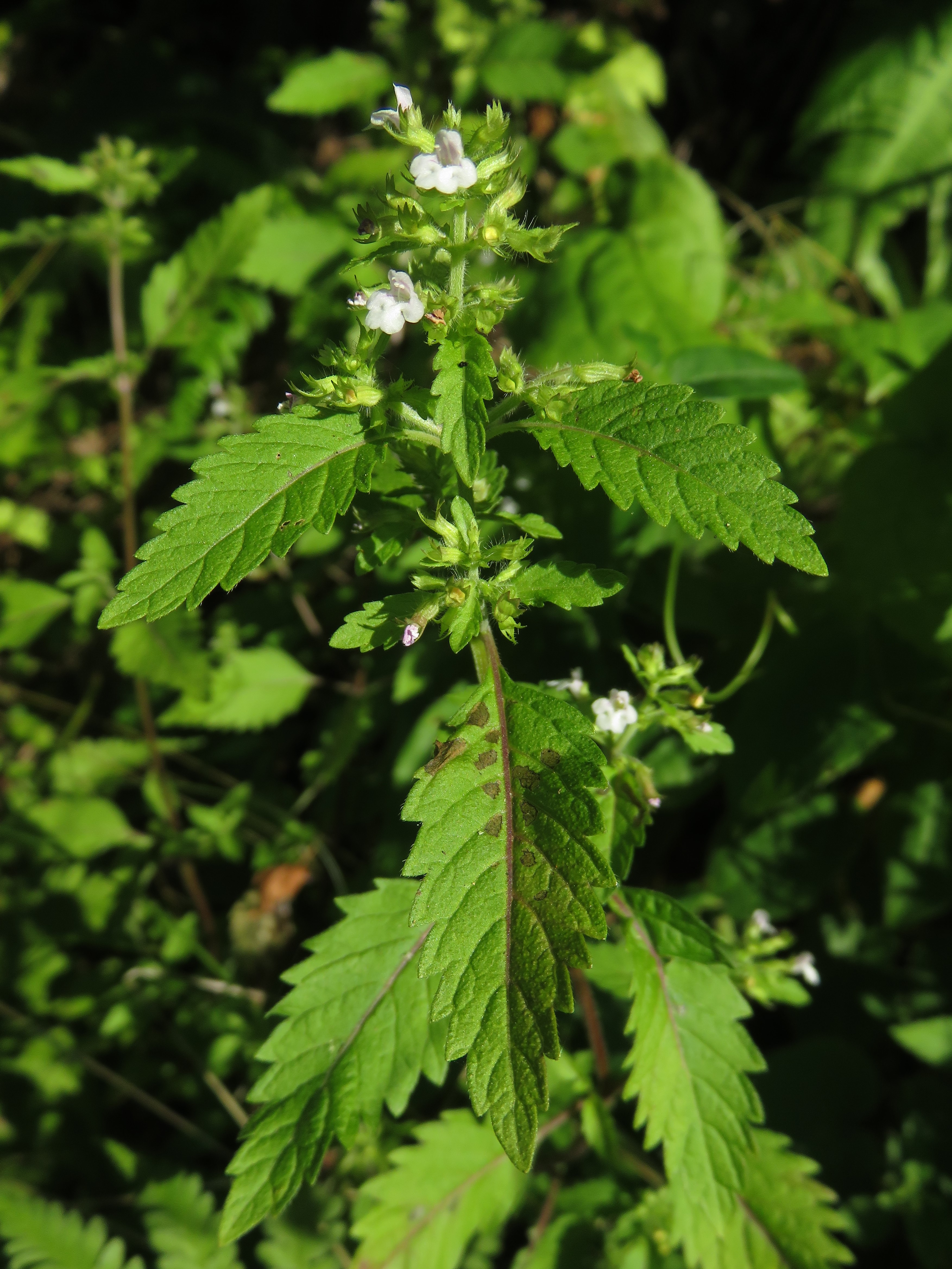 Clinopodium micranthum , Aizu area, Fukushima pref., Japan